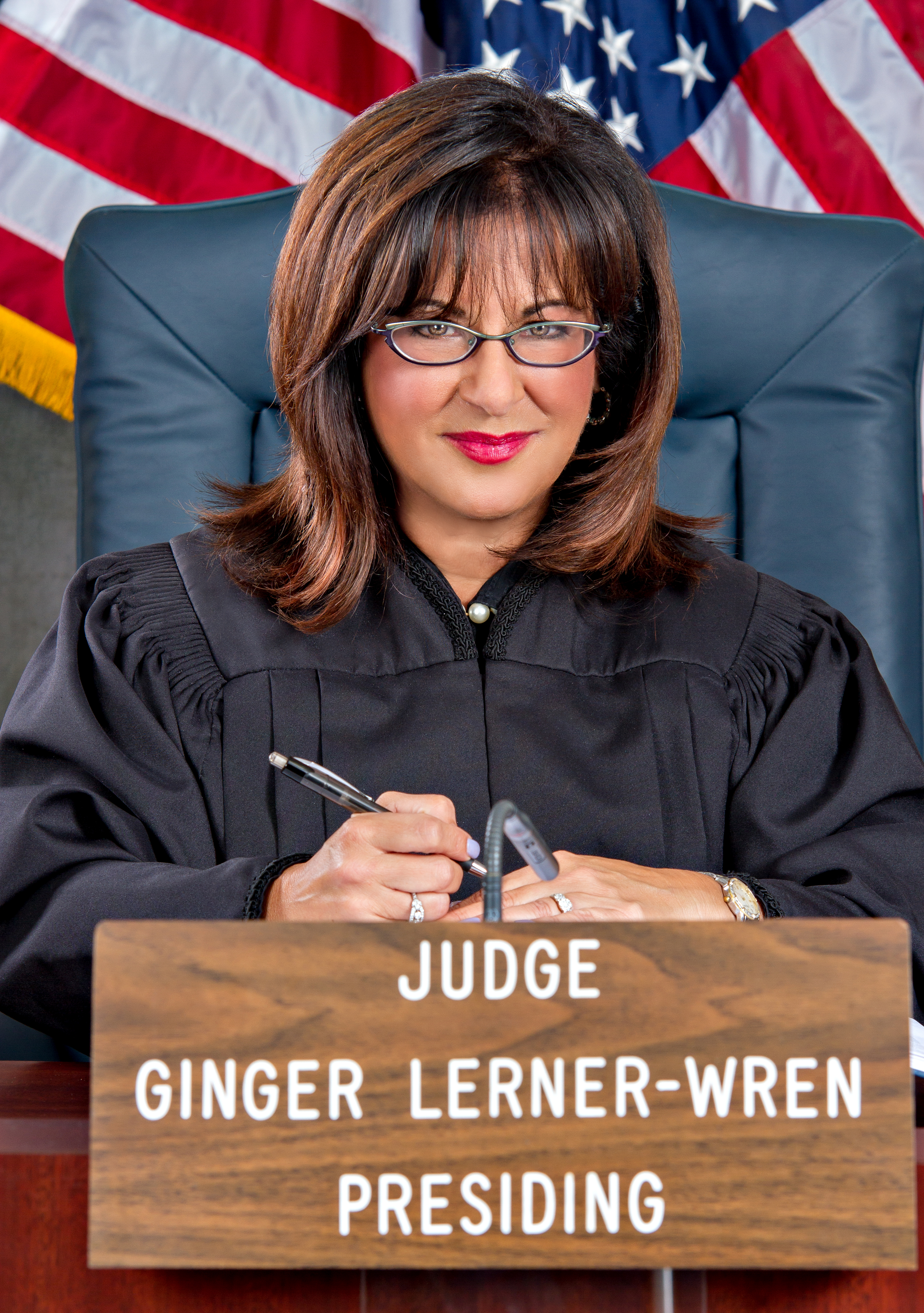 Photo from Broward County Court House